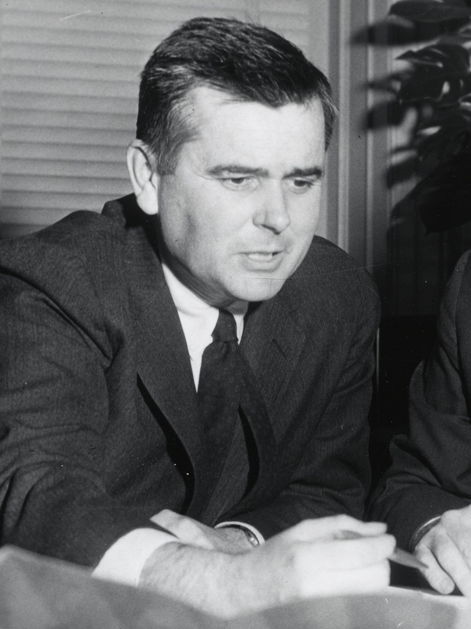 Title: Ed Logue of the Boston Redevelopment Authority with Mayor John F. Collins Creator: City of Boston Date: circa 1960-1968 Source: Mayor John F. Collins records, Collection #0244.001 File name: 244001_0696 Rights: Copyright City of Boston Citation: Mayor John F. Collins records, Collection #0244.001, City of Boston Archives, Boston